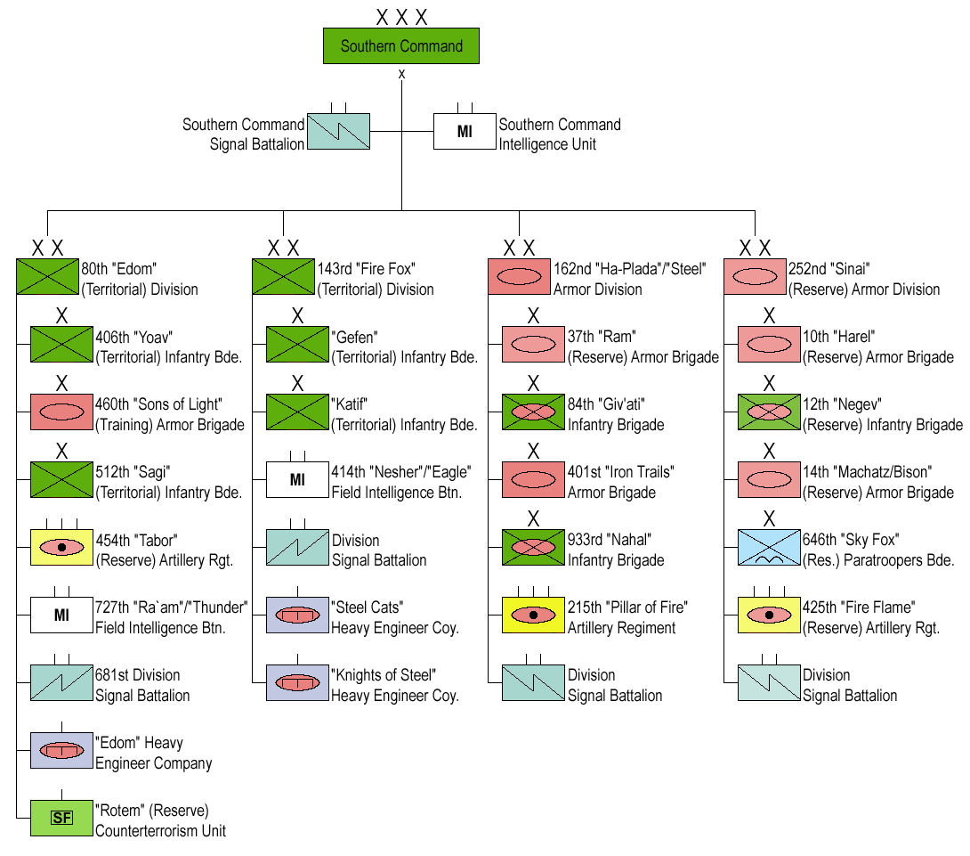 Structure of the known units of the Israel Defense Forces Ground Forces Southern Command.